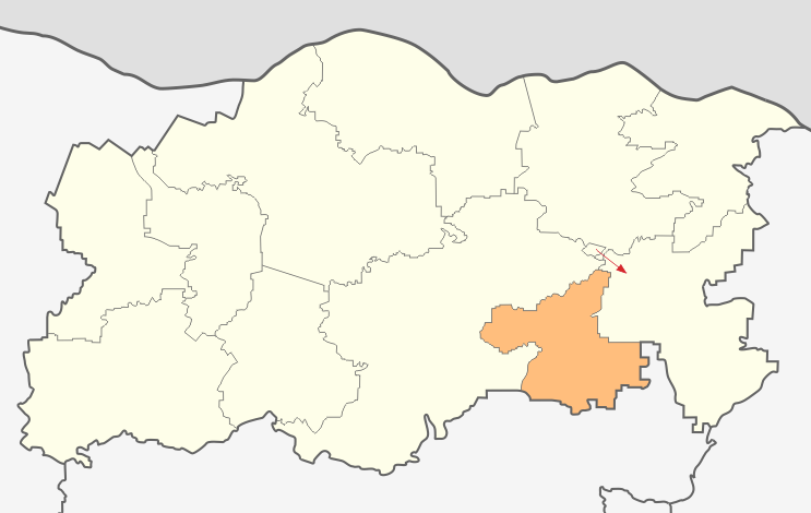 Map of Pordim municipality, Pleven Province